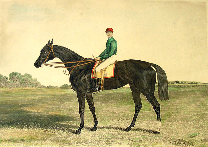 Hand-coloured engraving of 1878 Epsom Derby winner Sefton